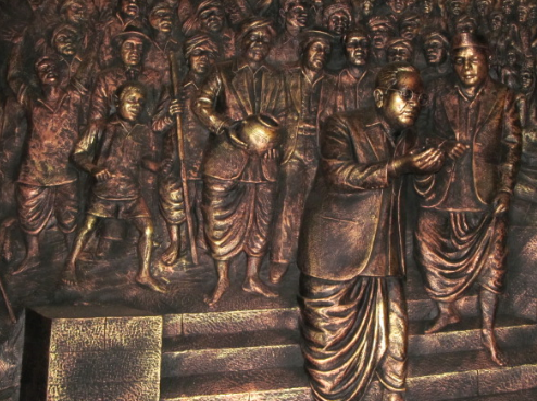 In India, Dalits were banned to drink (or touch) public water sources before 90's so Babasaheb Ambedkar led a protest March at Chavdar Tank at Mahad, India - Bronze sclpture depicting his Water movement.